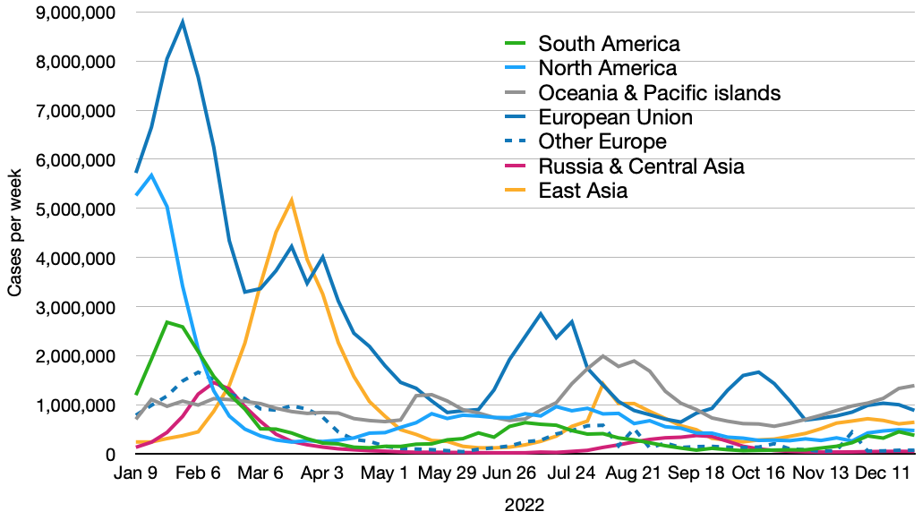 This is a 7 day average of the totals for the current top 7 subregions of the world. The totals for North America, the EU and South Asia have been smoothed over 50 days to allow for "catchup" totals that distort the graphs